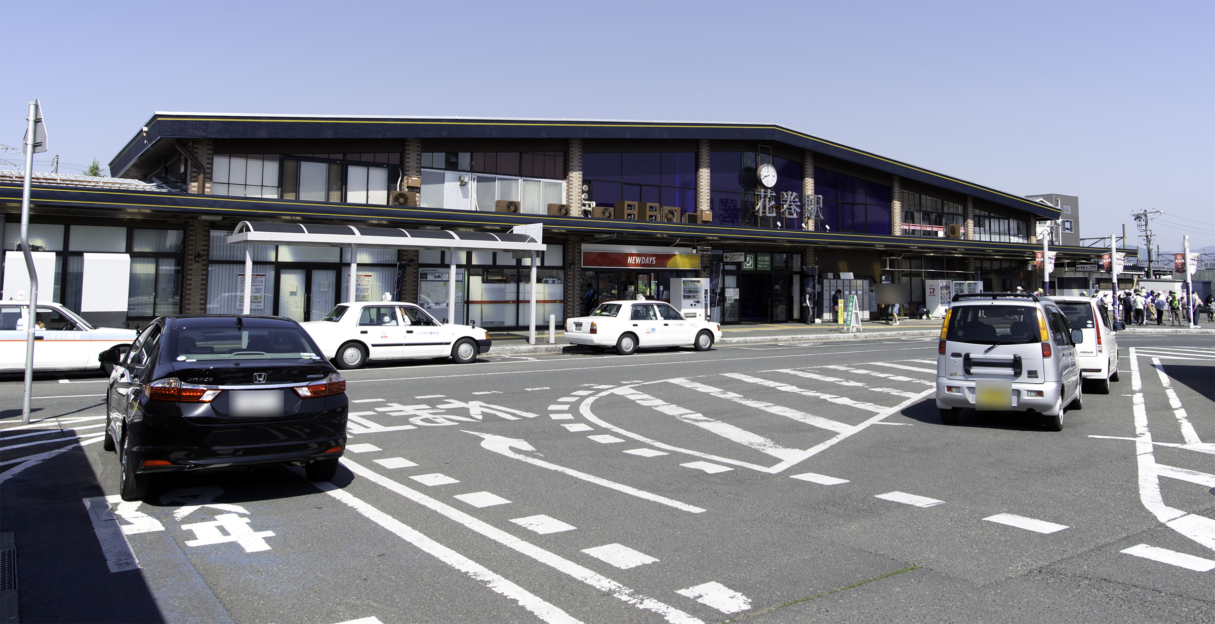 Hanamaki Station in Iwate Prefecture, Japan